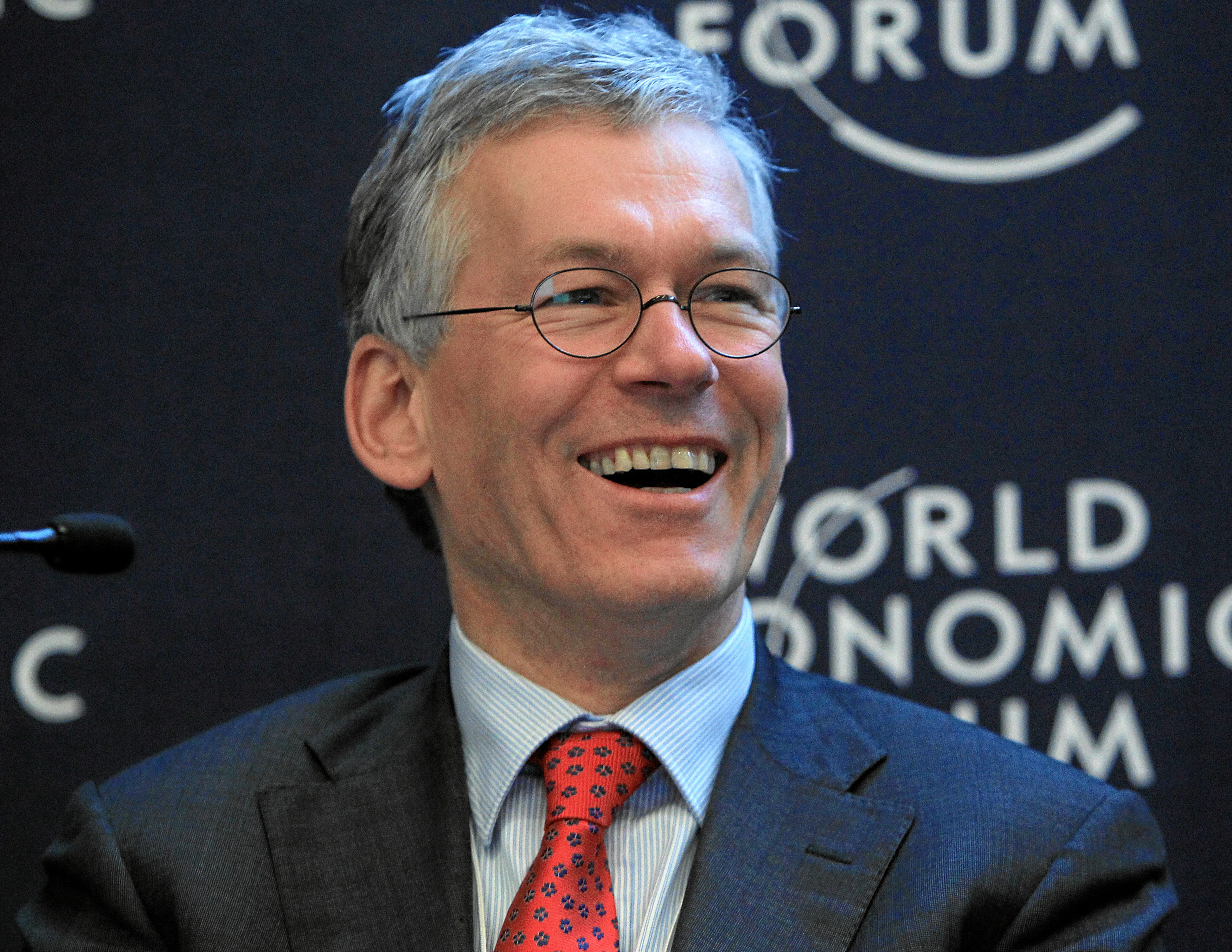 DAVOS/SWITZERLAND, 23JAN13 - Frans van Houten, Chief Executive Officer and Chairman of the Board of Management and the Executive Committee, Royal Philips Electronics, Netherlands talks during the interactive session 'The Digital Infrastructure Context' at the Annual Meeting 2013 of the World Economic Forum in Davos, Switzerland, January 23, 2013.. . Copyright by World Economic Forum. . Sebastian Derungs